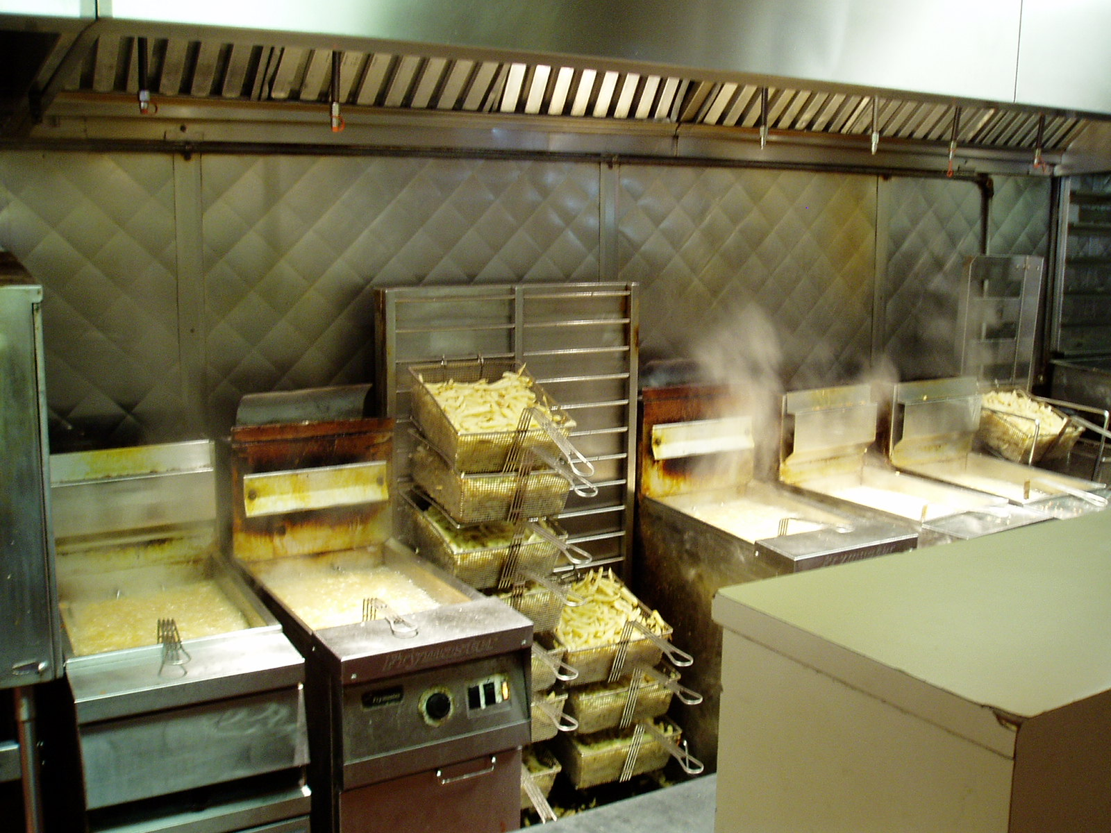 A row of deep fryers cooking French fries at Essie's Original Hot Dog shop in the Oakland neighborhood of Pittsburgh, Pennsylvania, USA.